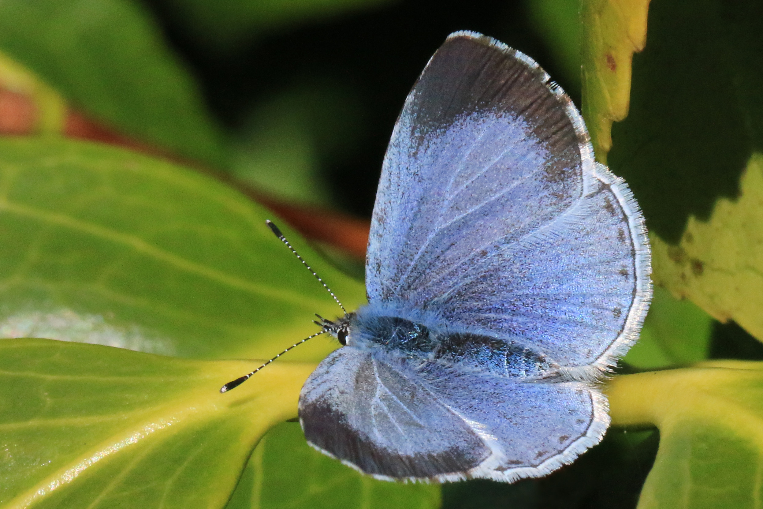 Holly blue butterfly (Celastrina argiolus) female, Cumnor Hill, Oxford